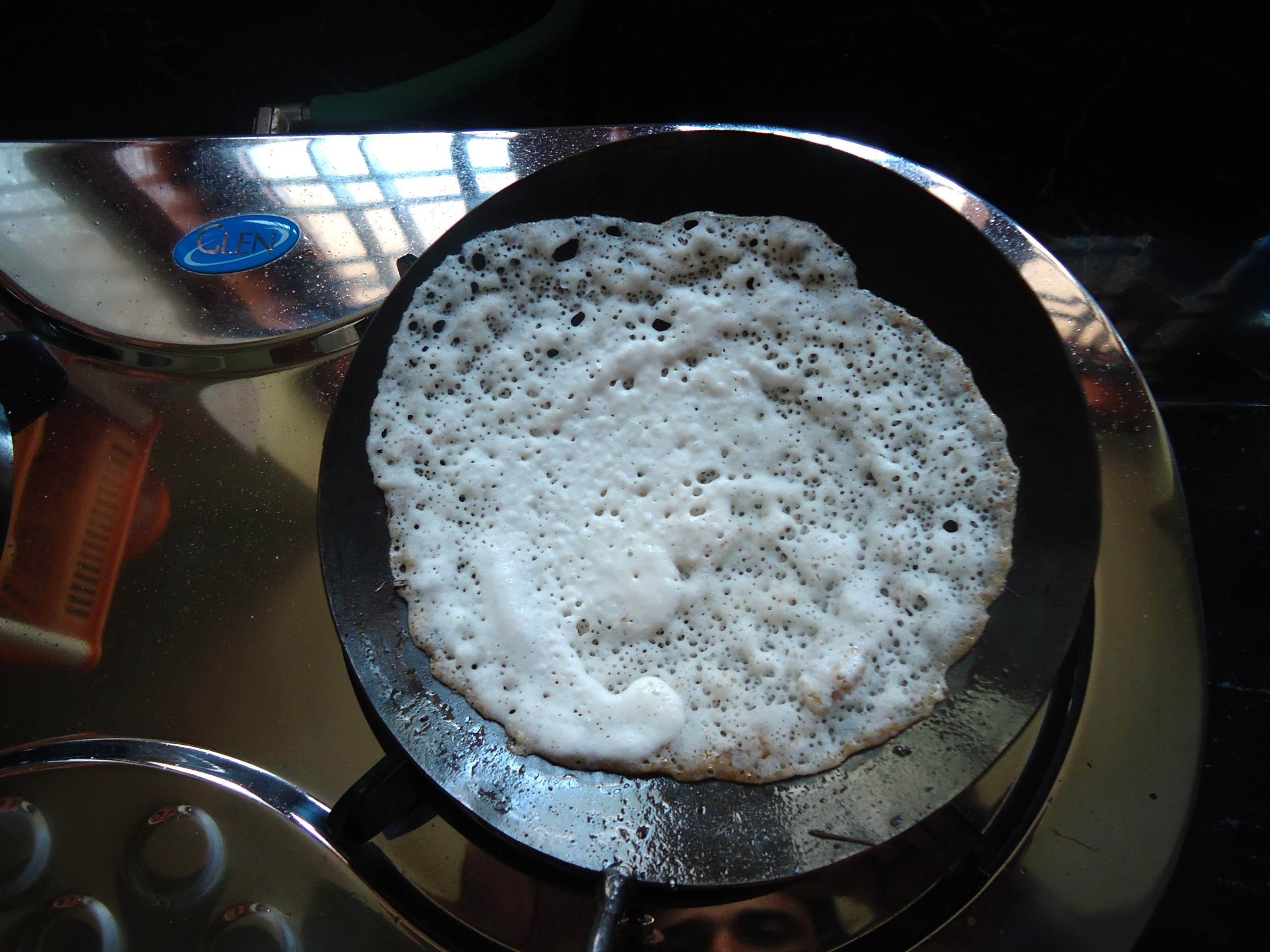 Appam (hoppers) from Kerala, India